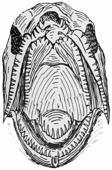 Drawing of the open mouth of a salmon (face on).